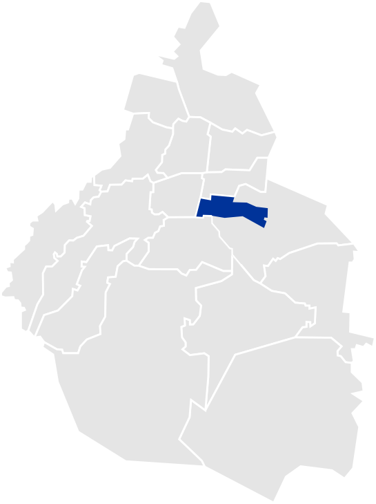 Map of the Twenieth Federal Electoral District of the Federal District, México.